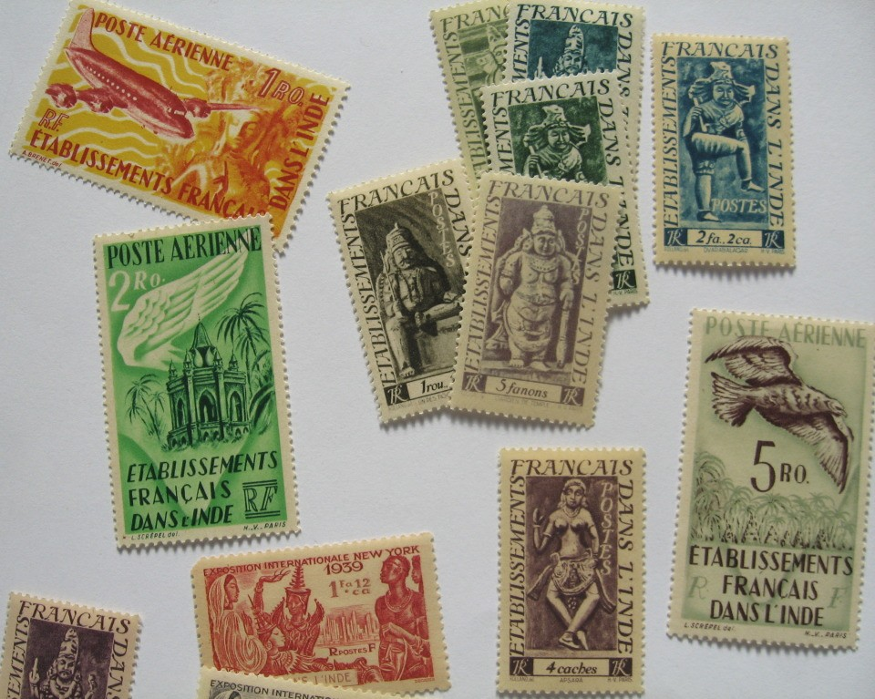 French India had its own currency (pegged to the currency of British India) and postage stamps. The stamps shown were issued in 1939 (New York World Fair, common design for all the French colonies), 1948 (definitive issue) and 1949 (air mail stamps).